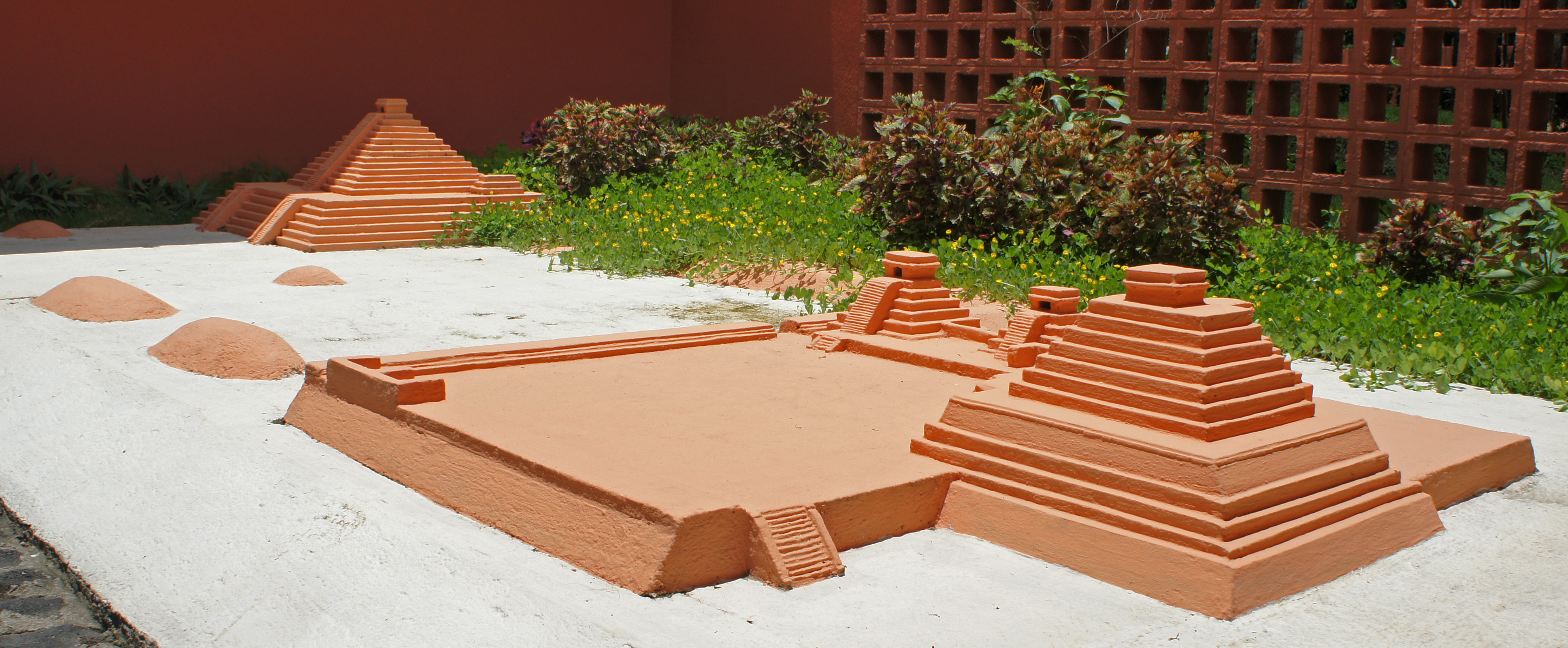 Scale model showing San Andres main structures. La Acropolis complex is in the forefront and La Campana in the background. San Andres Archaelogical Site Museum.